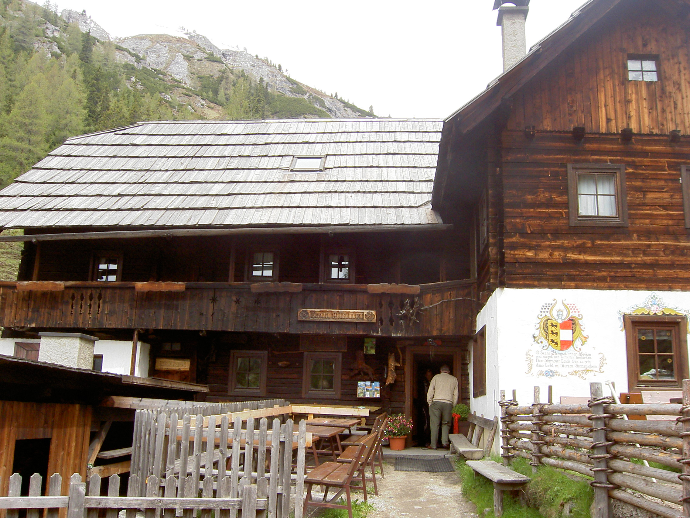 Alpine pasture in / Carinthia / Austria / Europe.